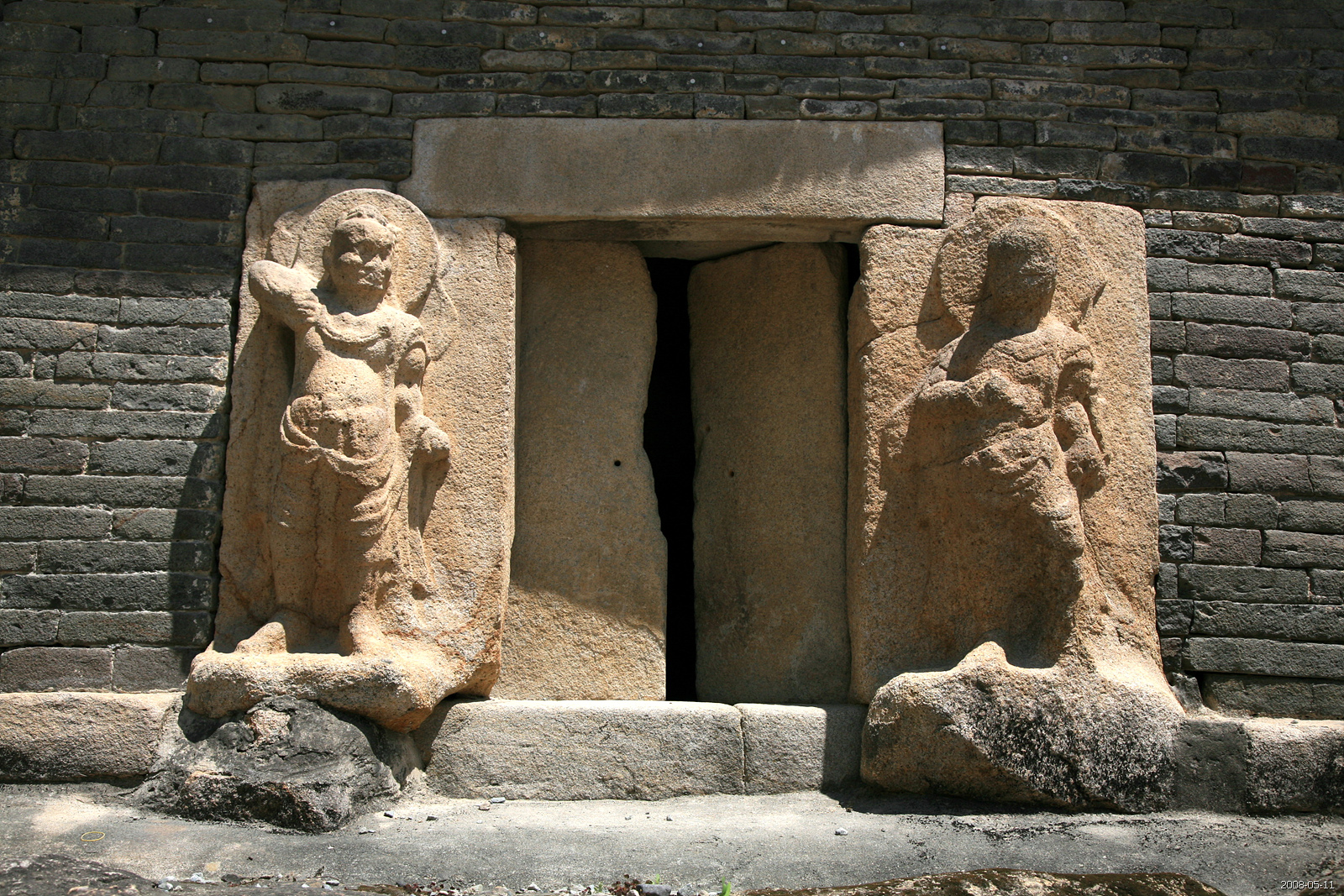 "Diamond Men" statues at the stone pagoda of Bunhwangsa temple, Gyeongju, North Gyeongsang province, South Korea